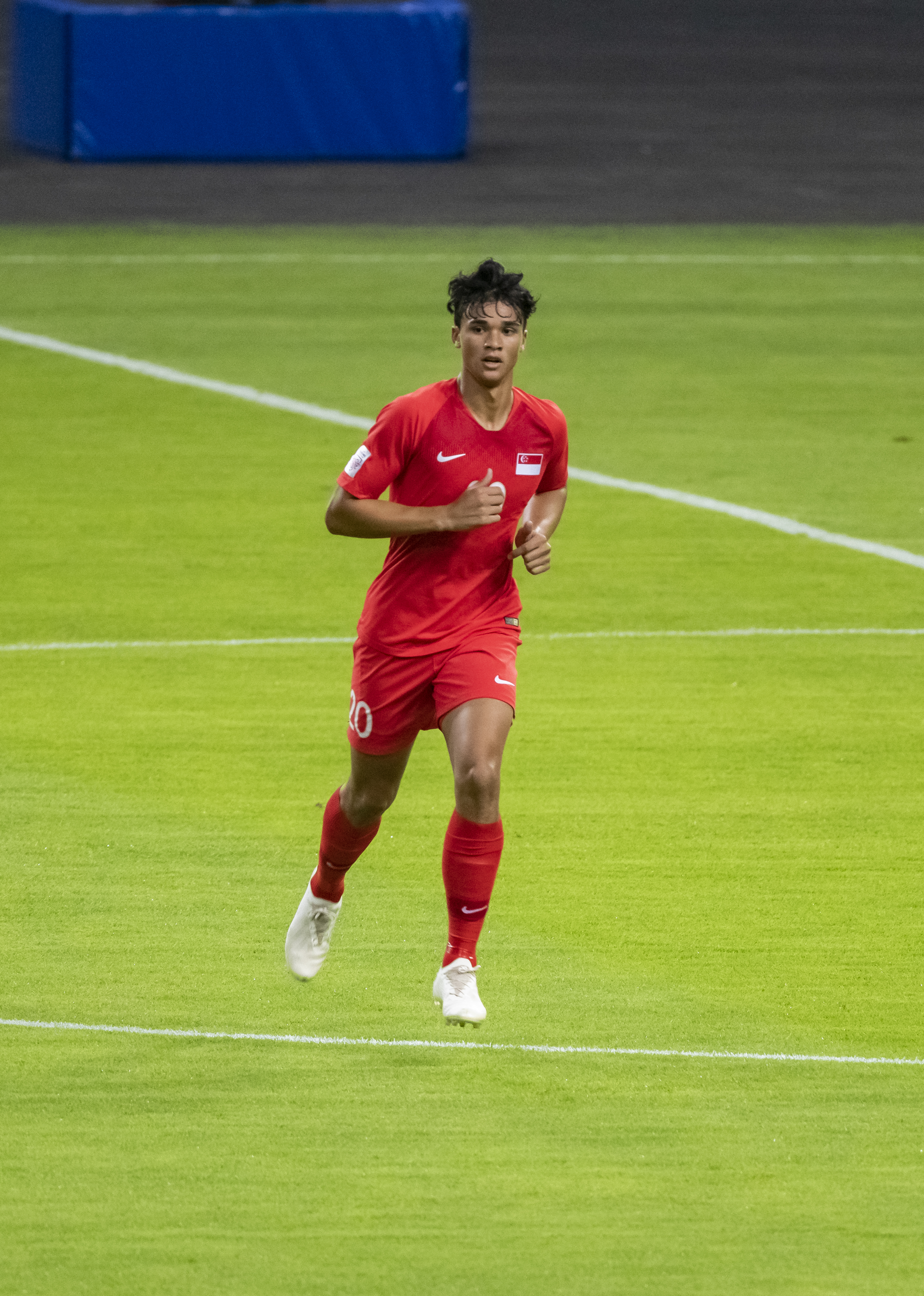 Suzuki Cup v Indonesia